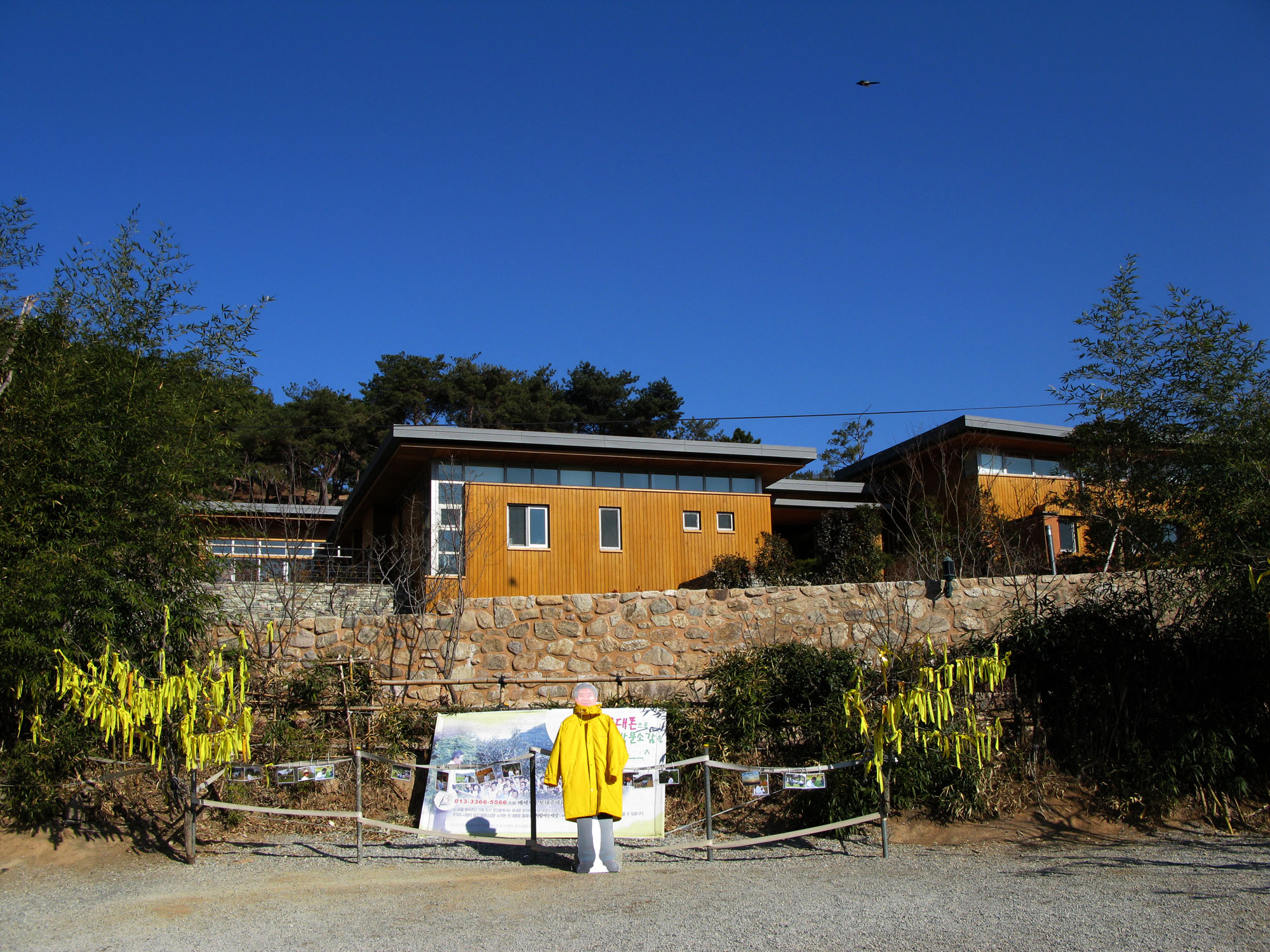 Roh Moo-hyun's House